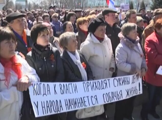 Protests in Luhansk. Message on poster: "When sons of bitches come to power, the people are faced with a dog's life."